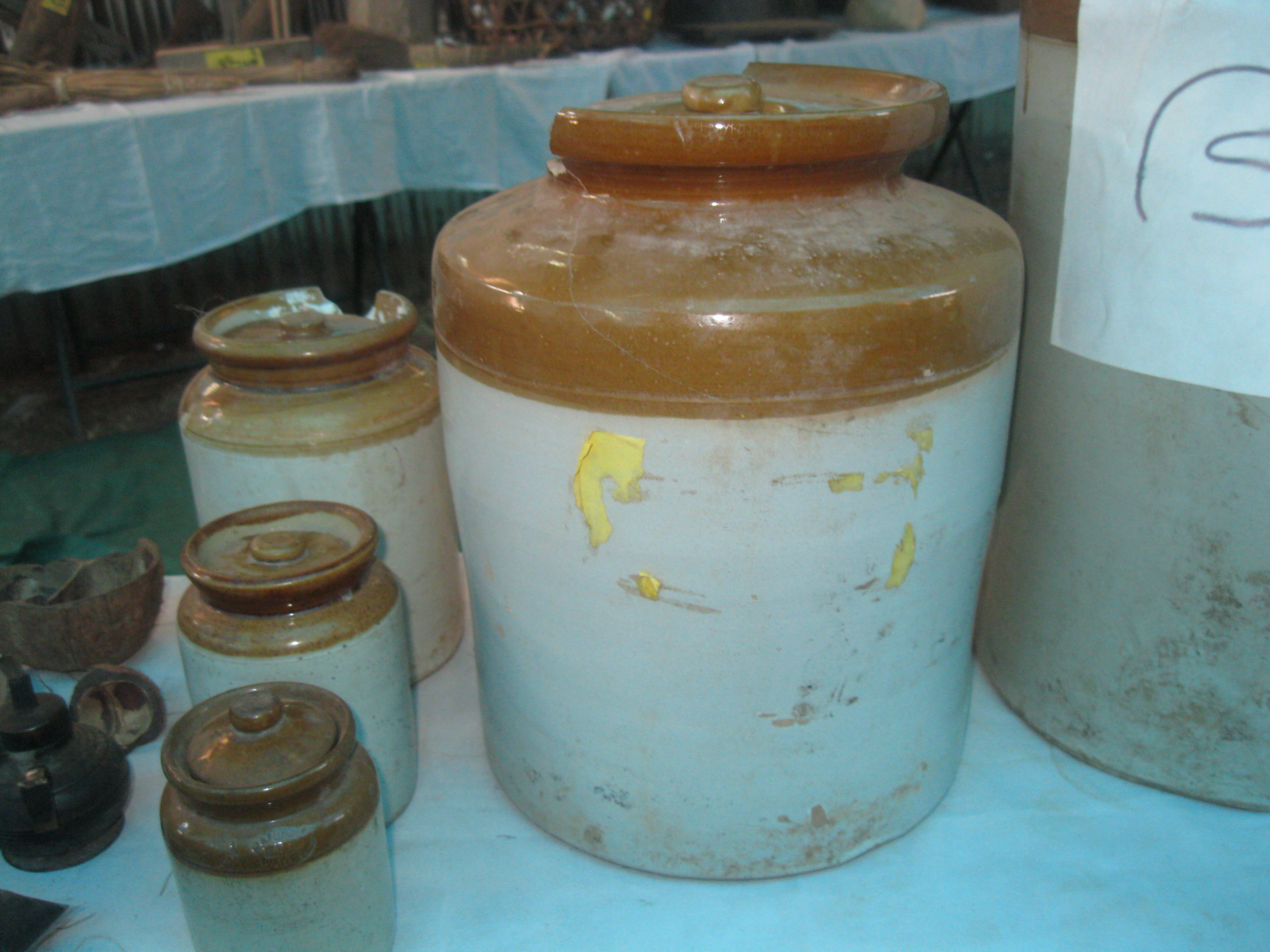 china pot , kerala